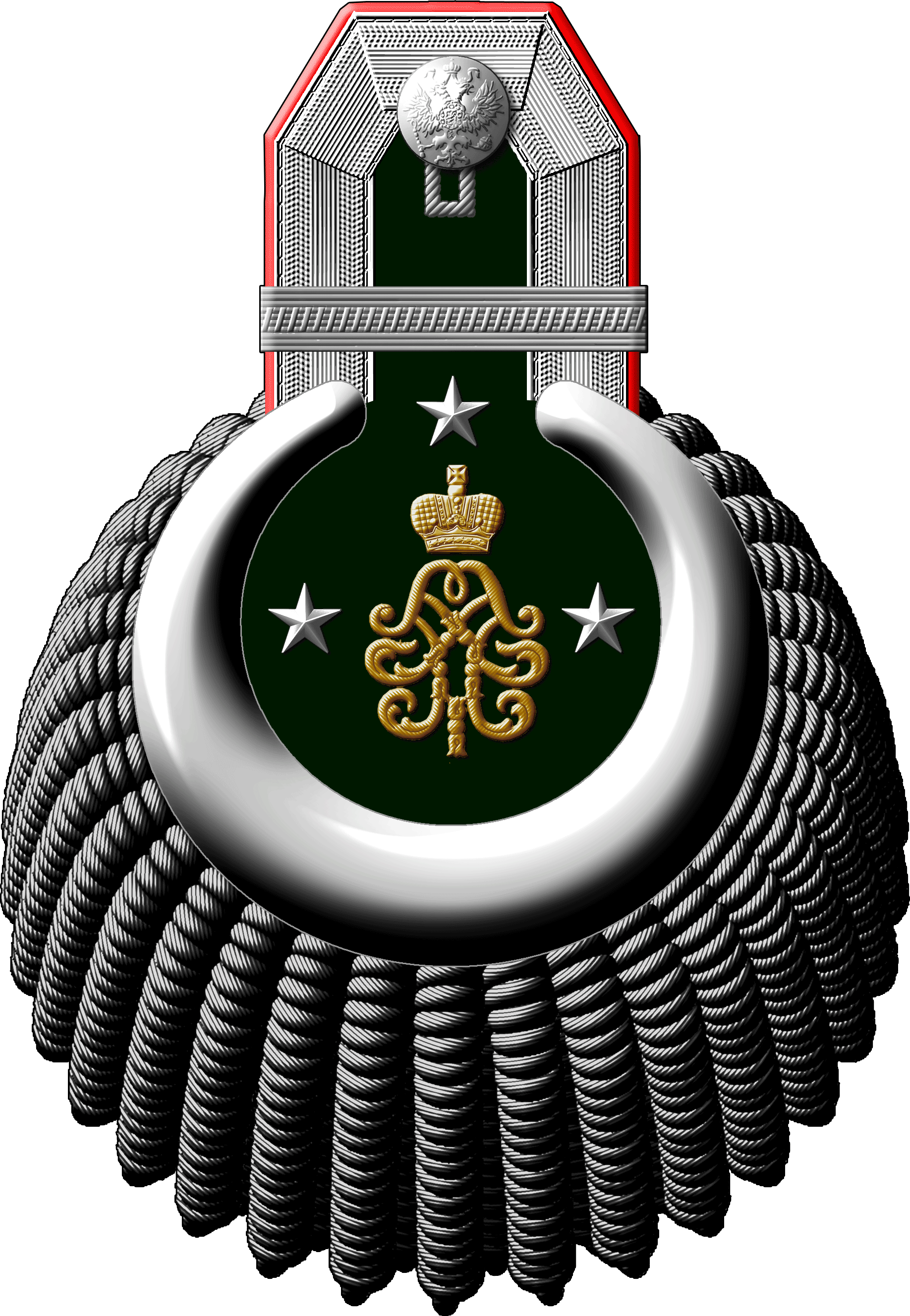 Russian Empire; Russian Imperial Army, here epaulette as to the design of 1911: «Military medical administration» «Professor» of the S.M. Kirov Military Medical Academy with the rank of «Privy Councillor» (Rank)class in line to the table of ranks = K3, comparable to Lieutenant general (NATO OF-7).